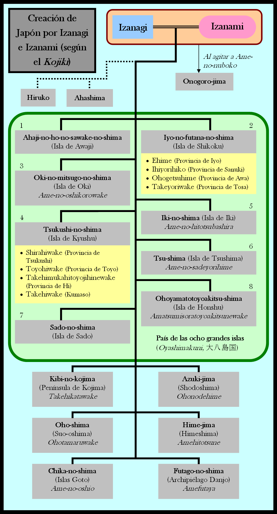 Myth of the creation of Japan